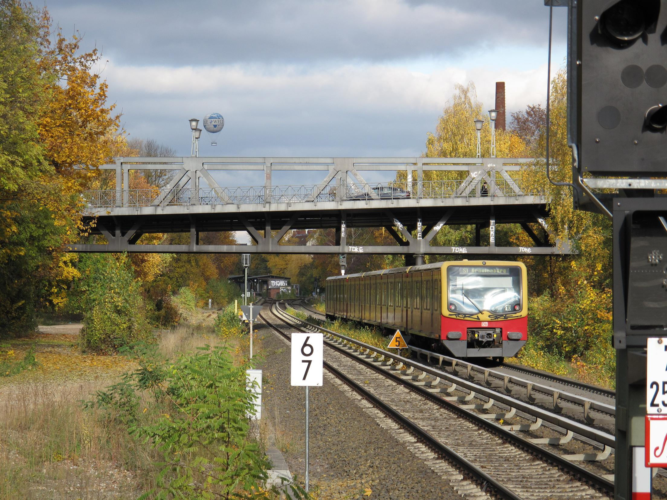 The Langenscheidtbrücke is a street-bridge of the Monumenten-/Langenscheidtstraße in Berlin-Schöneberg crossing the Wannseebahn. The steel-frame-bridge was built in 1898/99 and rebuilt largestly after the historical original in 1987/89.